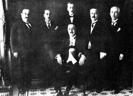 Ahmad Nami with his government between 1926 - 1928